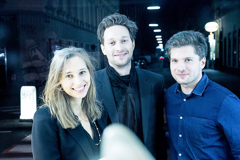 Alice Karasek, Jürgen Karasek, Filip Antoni Malinowski (v.r.n.l.)